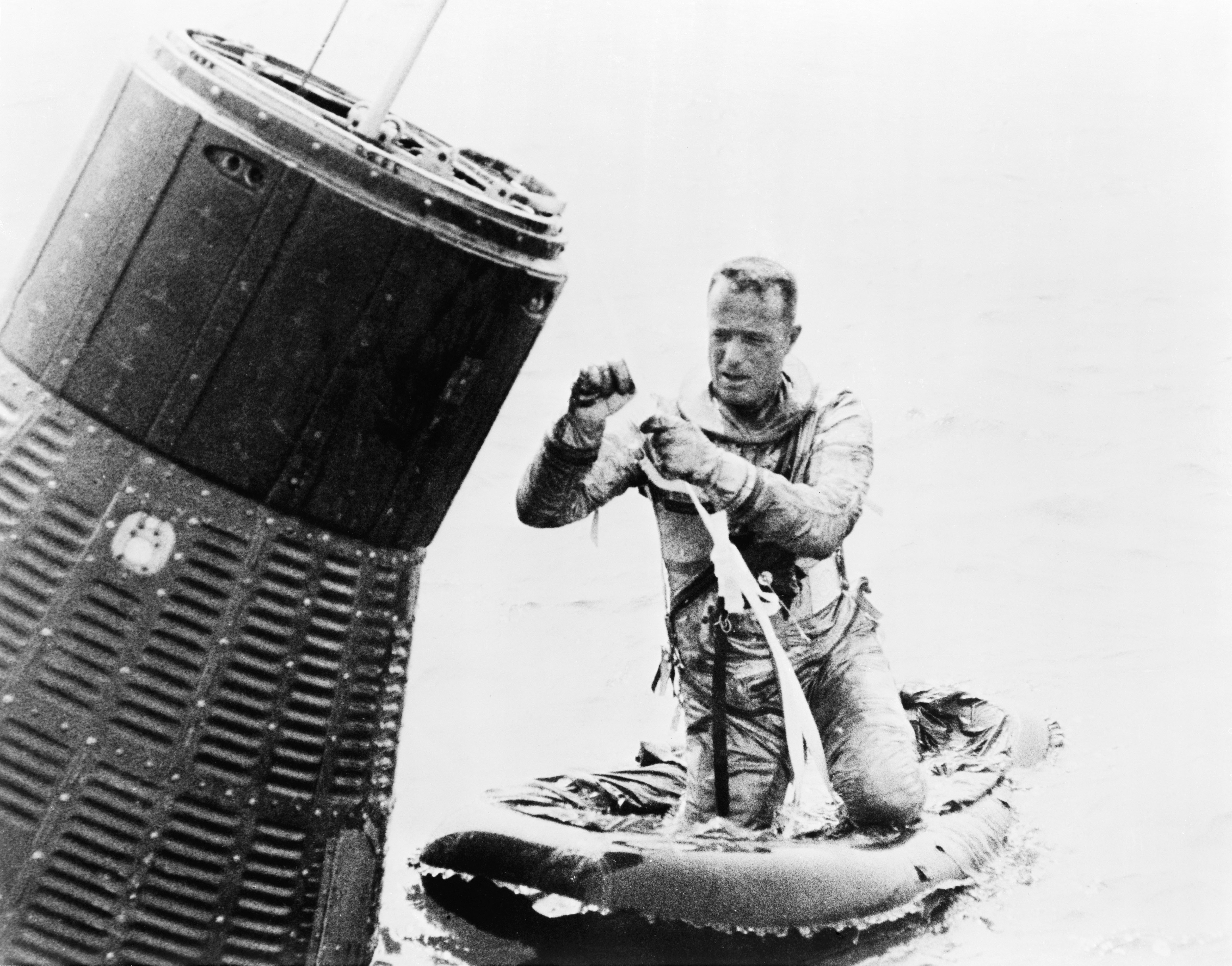 NASA Mercury Astronaut Scott Carpenter, pilot of the Mercury Atlas 7 mission, completing a water egress test in 1962. Taken from and uploaded by Willy Logan.